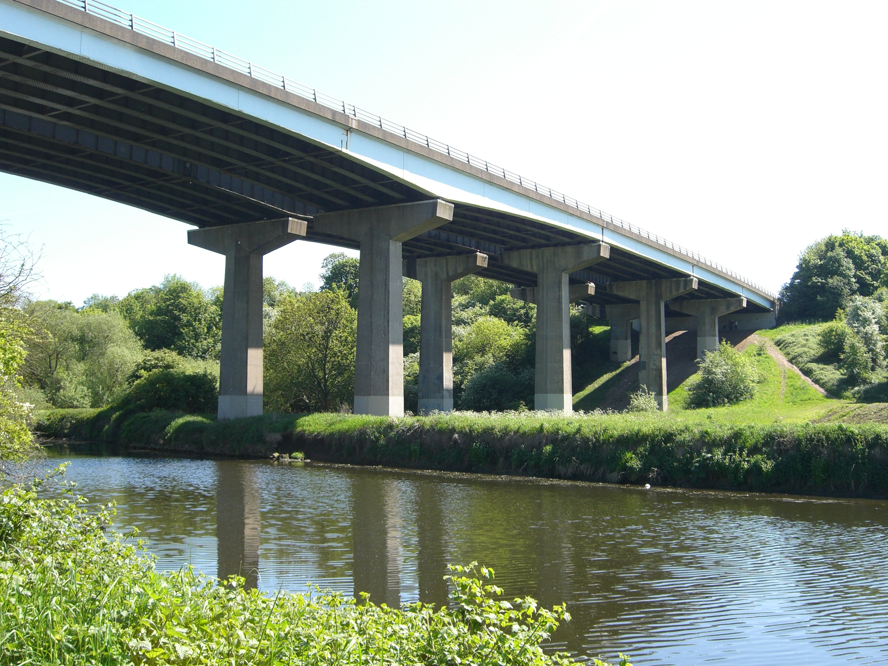 A1 Bridge over R Don